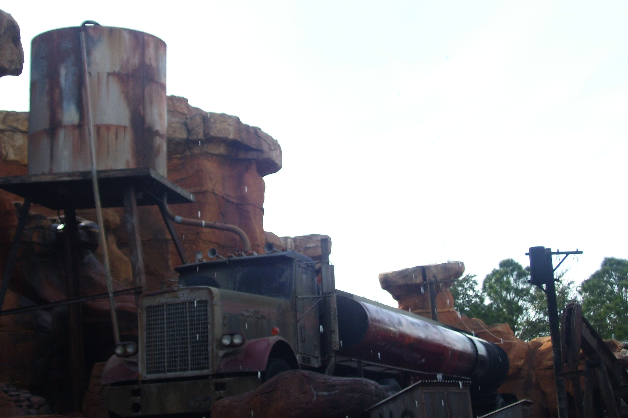 Catastrophe Canyon, a part of the Backlot Tour at Disney-MGM Studios that I took. I release it to the Public Domain.